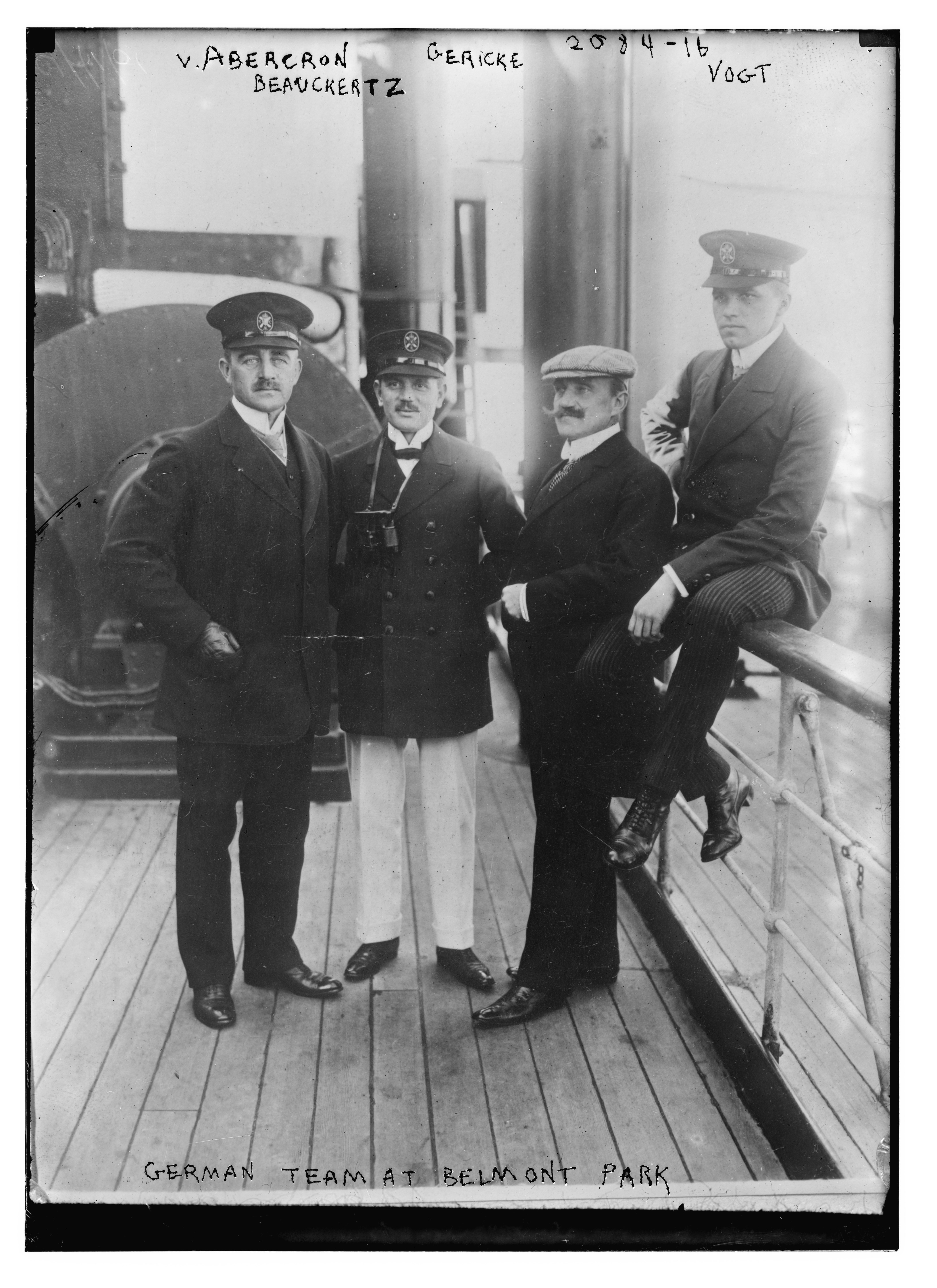 Title: German Team at Belmont Park V. Abercron, Gericke, Beauclertz, Vogt Abstract/medium: 1 negative : glass ; 5 x 7 in. or smaller.